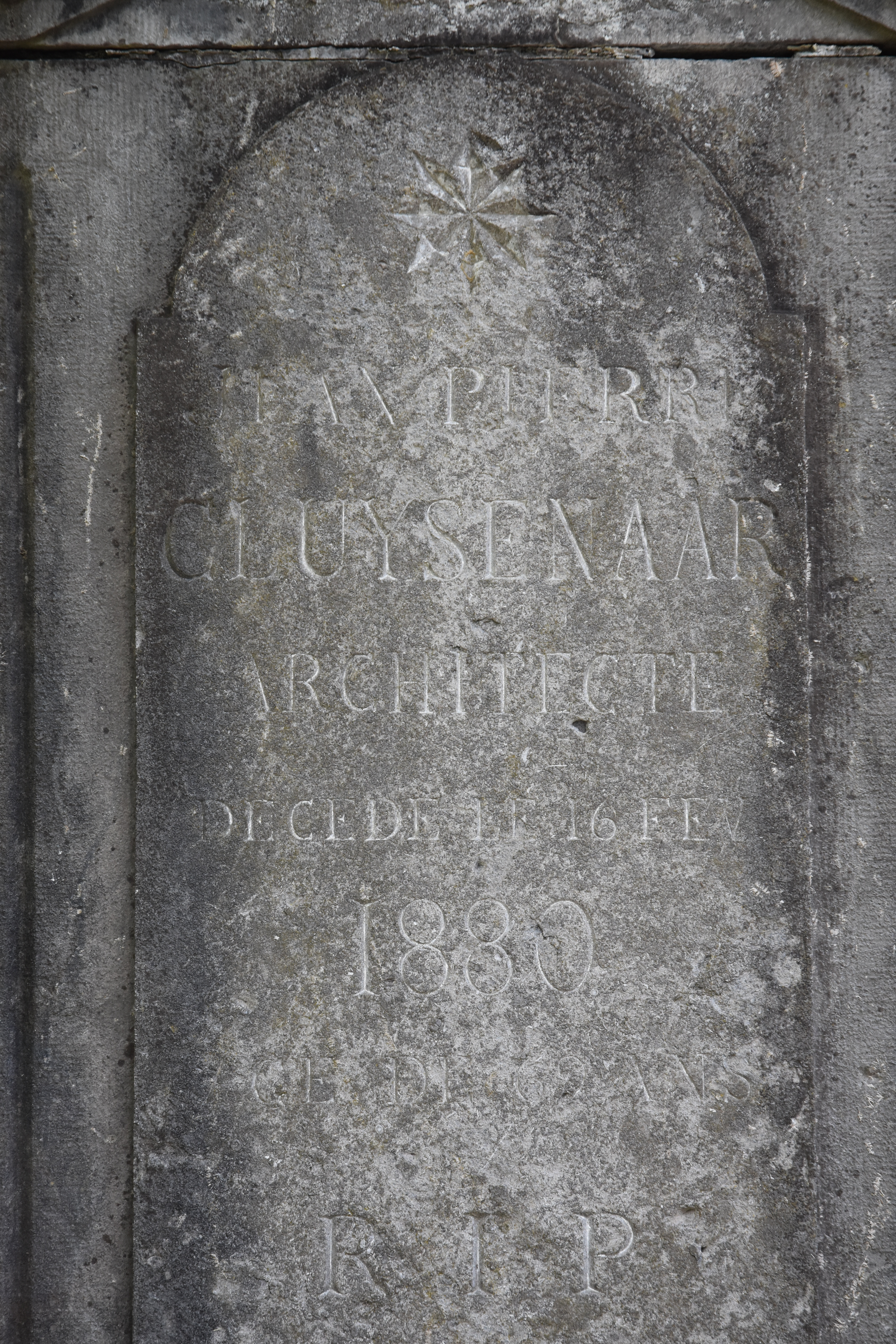 Gravestone of the Belgian architect Jean-Pierre Cluysenaar, in the Dieweg cemetery in Uccle. Text top: JEAN PIERRE CLUYSENAARARCHITECTEDECEDE LE 16 FEV1880AGE DE 69 ANS [Jean-Pierre Cluysenaar, architecte, décédé le 16 février 1880, âgé de 69 ans.] [Jean-Pierre Cluysenaar, architect, died on 16 February 1880, aged 69.] Text bottom: R.I.P. [Requiescat in pace] [Rest in peace]